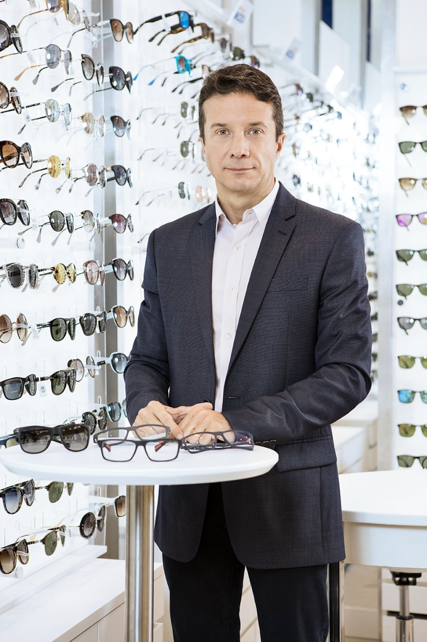 Ronaldo Pereira Junior, presidente Óticas Carol